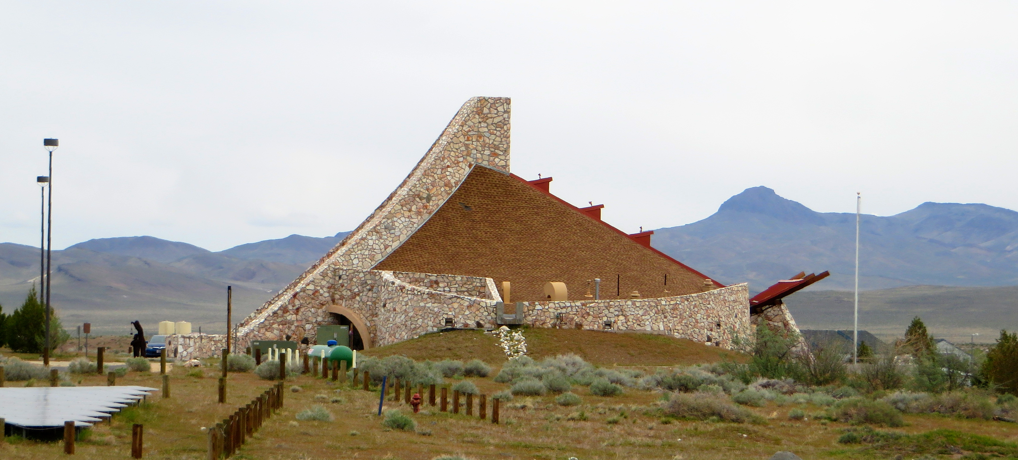 Pyramid Lake Museum and Visitors Center, Pyramid Lake Indian Reservation, Nixon, Nevada